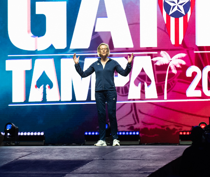 Tampa, Florida Mayor Jane Castor speaks during the 2019 Department of Defense (DoD) Warrior Games Opening Ceremony in Tampa Bay, Florida June 22, 2019. Approximately 300 wounded, ill, and injured service members and veterans will participate in 13 athletic competitions over 10 days as U.S. Special Operations Command hosts the 2019 DoD Warrior Games. (DoD Photo by U.S. Army Sgt. James K. McCann)